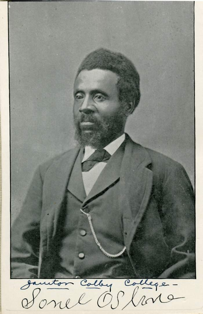 Photographic portrait of Samuel Osborne, captioned "Janitor Colby College" and with his signature.